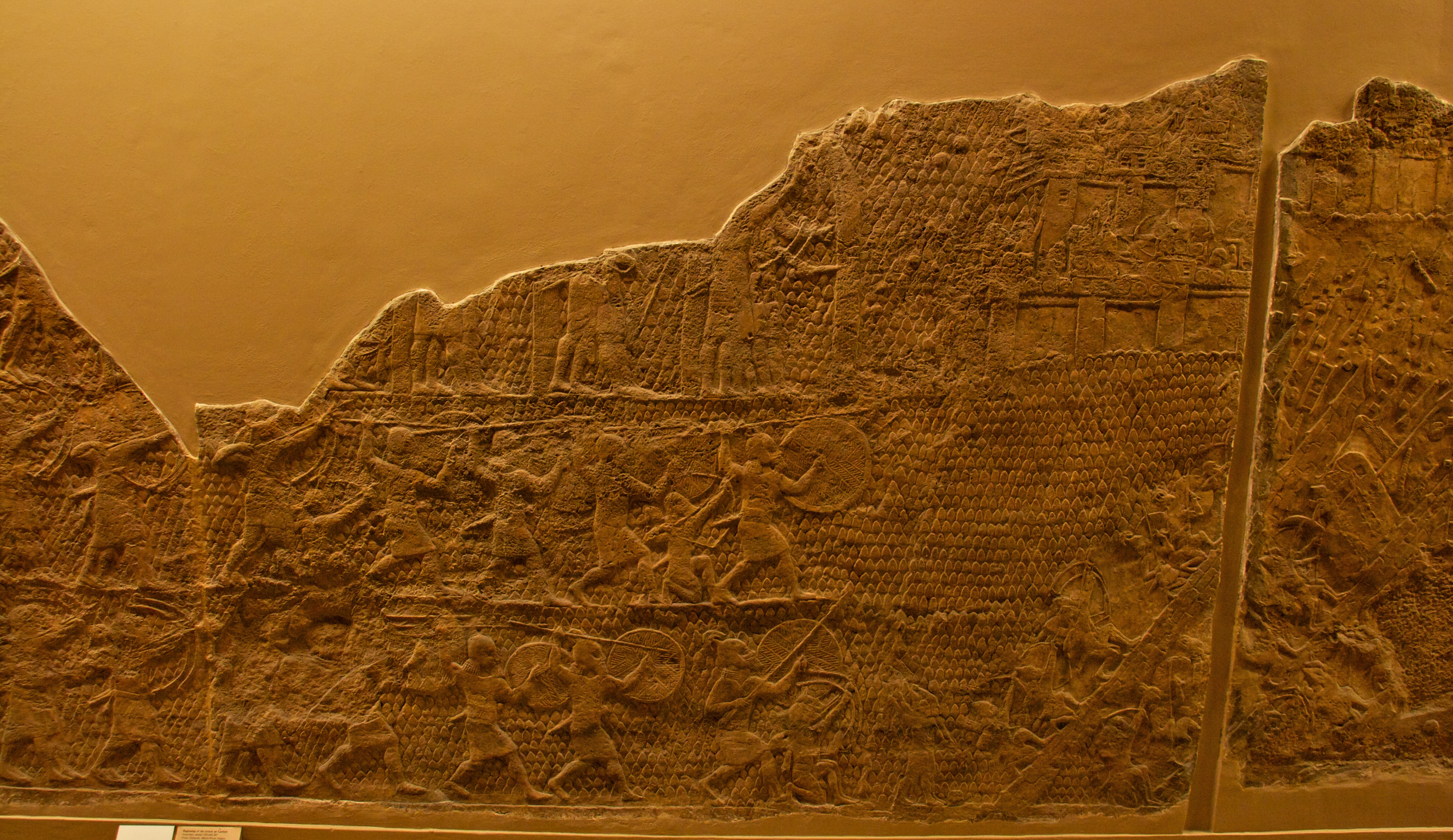 Assyria: Siege of Lachish. Beginning of the attack on Lachish. Assyrian, about 700-692 BC. From Nineveh, South-West Palace, Room XXXVI, panels 5-6. These panels, with others to the right, show an important incident during Sennacherib's campaign of 701BC, the capture of Lachish in the kingdom of Judah. Here, at the back, long-range artillery are slinging stones and shooting arrows. In front, storm-troopers prepare for the assault. W A 124904-5. Lachish Reliefs, Object 21 of 100, British Museum